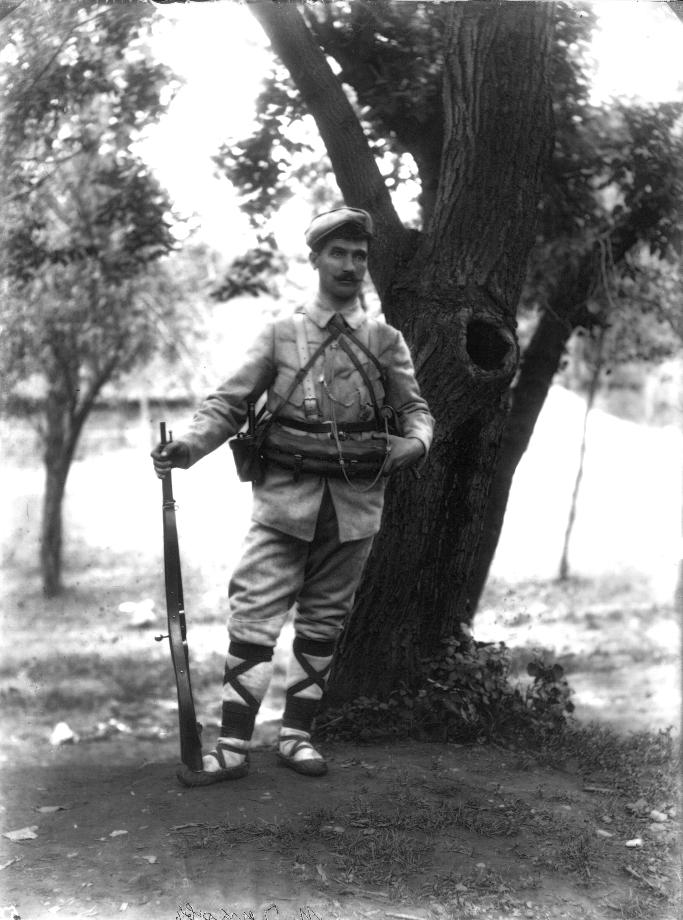 Portrait of Mihail Chakov